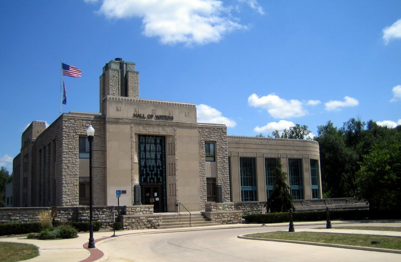 Excelsior Springs, Missouri City Hall, commonly known as The Hall of Waters.